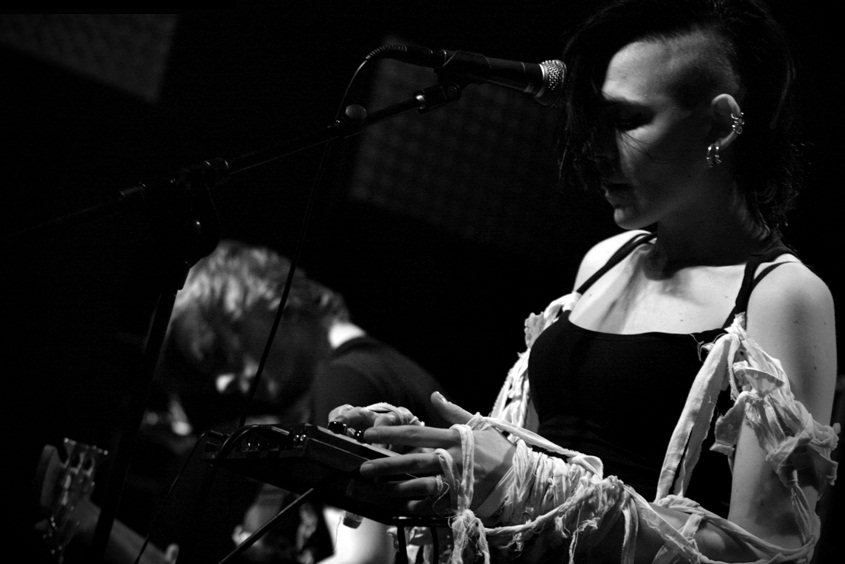 Obscure Sphinx playing live show in Gdynia.